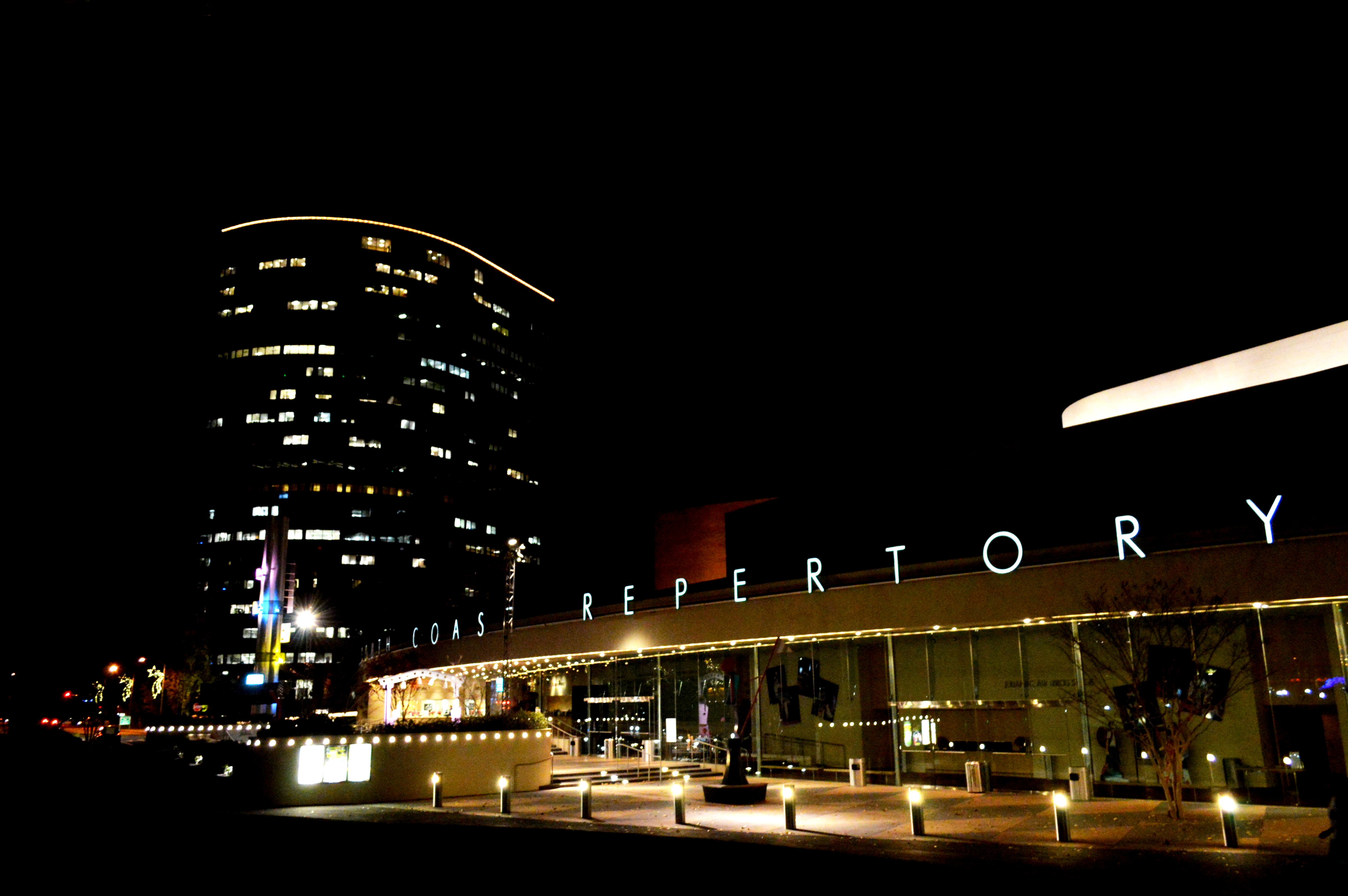 South Coast Repertory with the Center Tower in the background in the "Town Center" area of South Coast Plaza in Costa Mesa, California, U.S.A. Here's a daytime version.